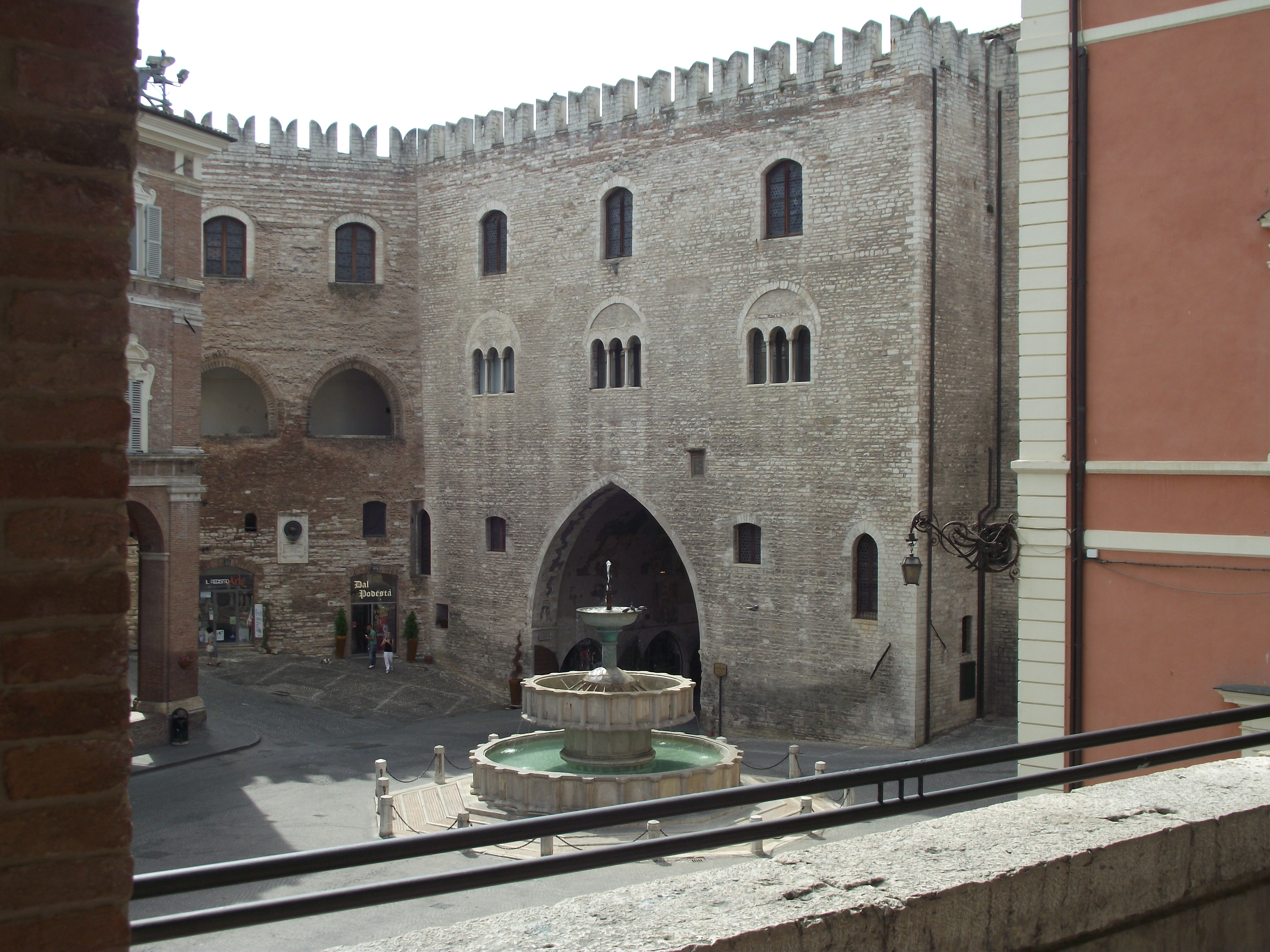 Fabriano, Palace of the Podestà, 1255